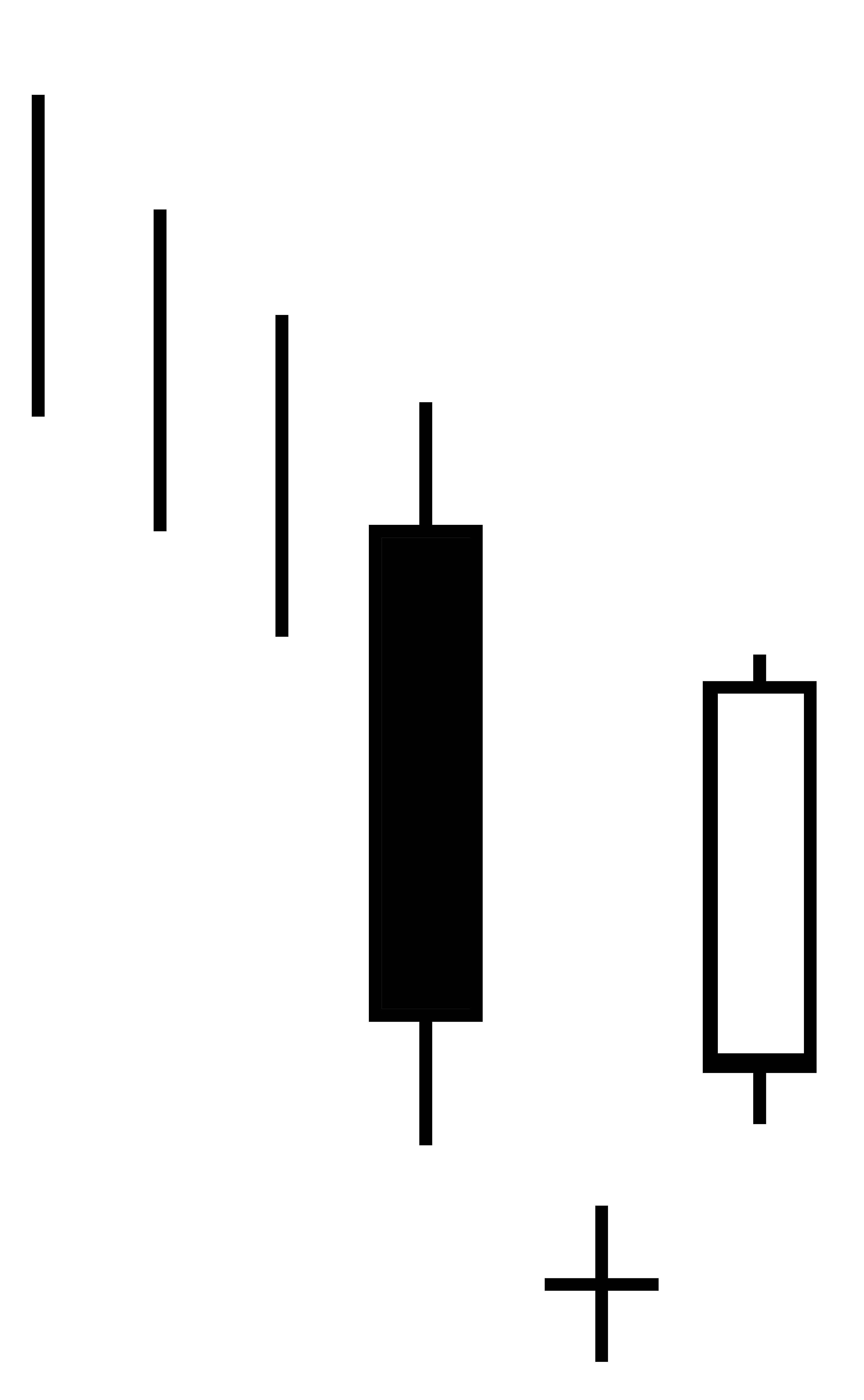 Bullish Abandoned baby